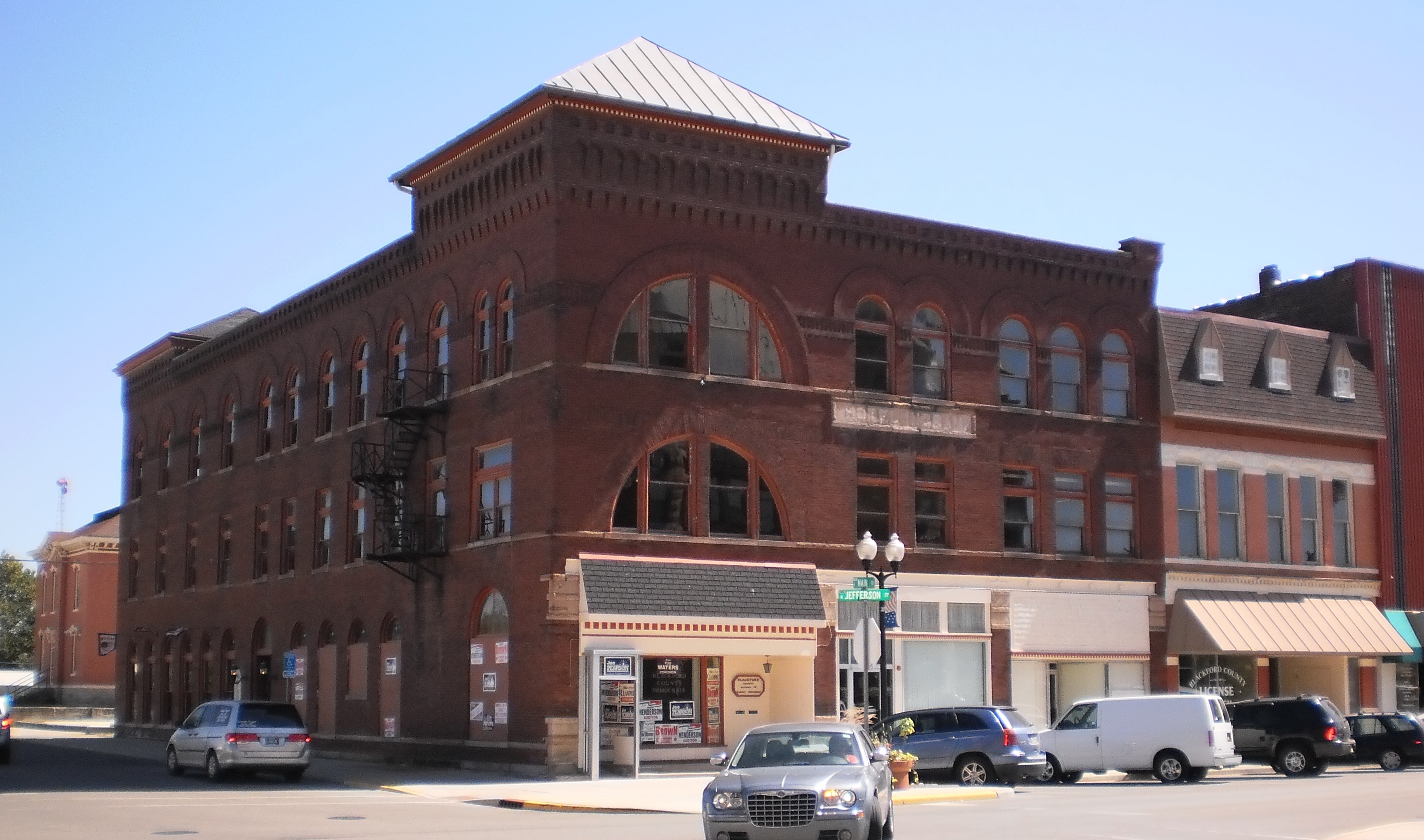 The Hotel Ingram building is part of the Hartford City Courthouse Square Historic District, and was built during the Gas Boom era between 1890 and 1910. Part of the Blackford County Jail (also part of the district) can be seen on the left side of the photo. The building to the right of the Hotel in the photo is also part of the district.